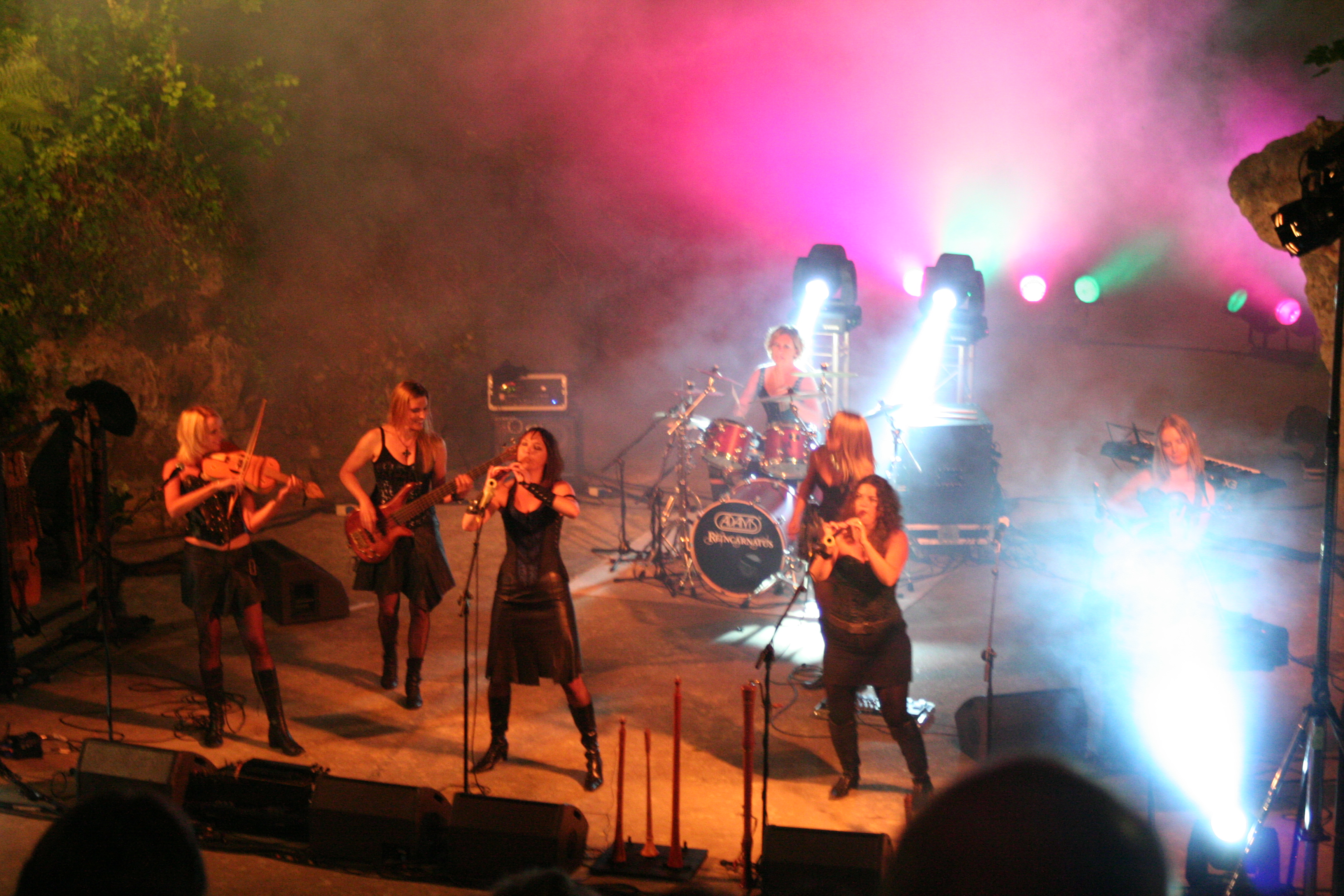 Reincarnatus - open air concert - Valkenburg aan de Geul